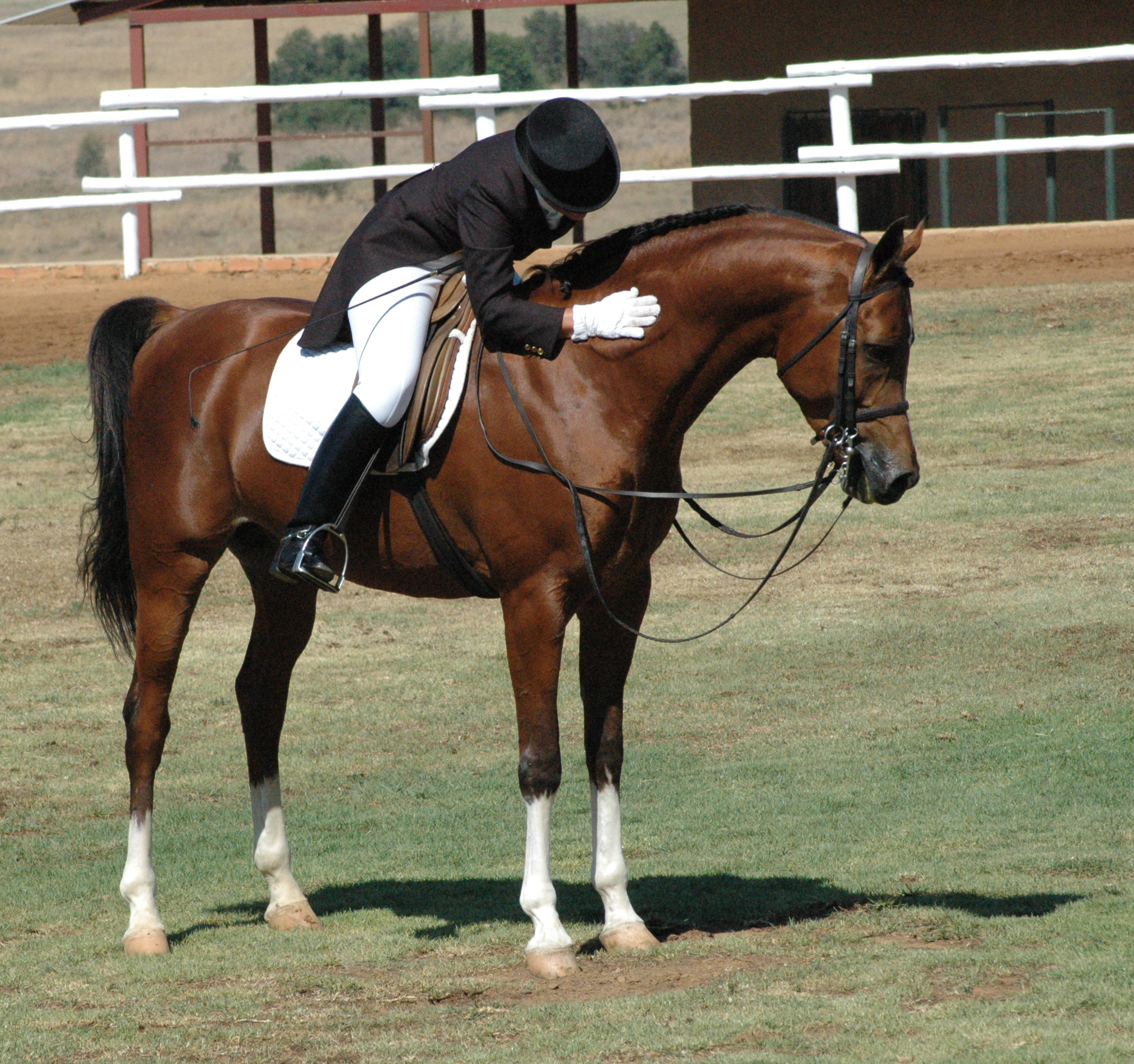 Dressage Arabian